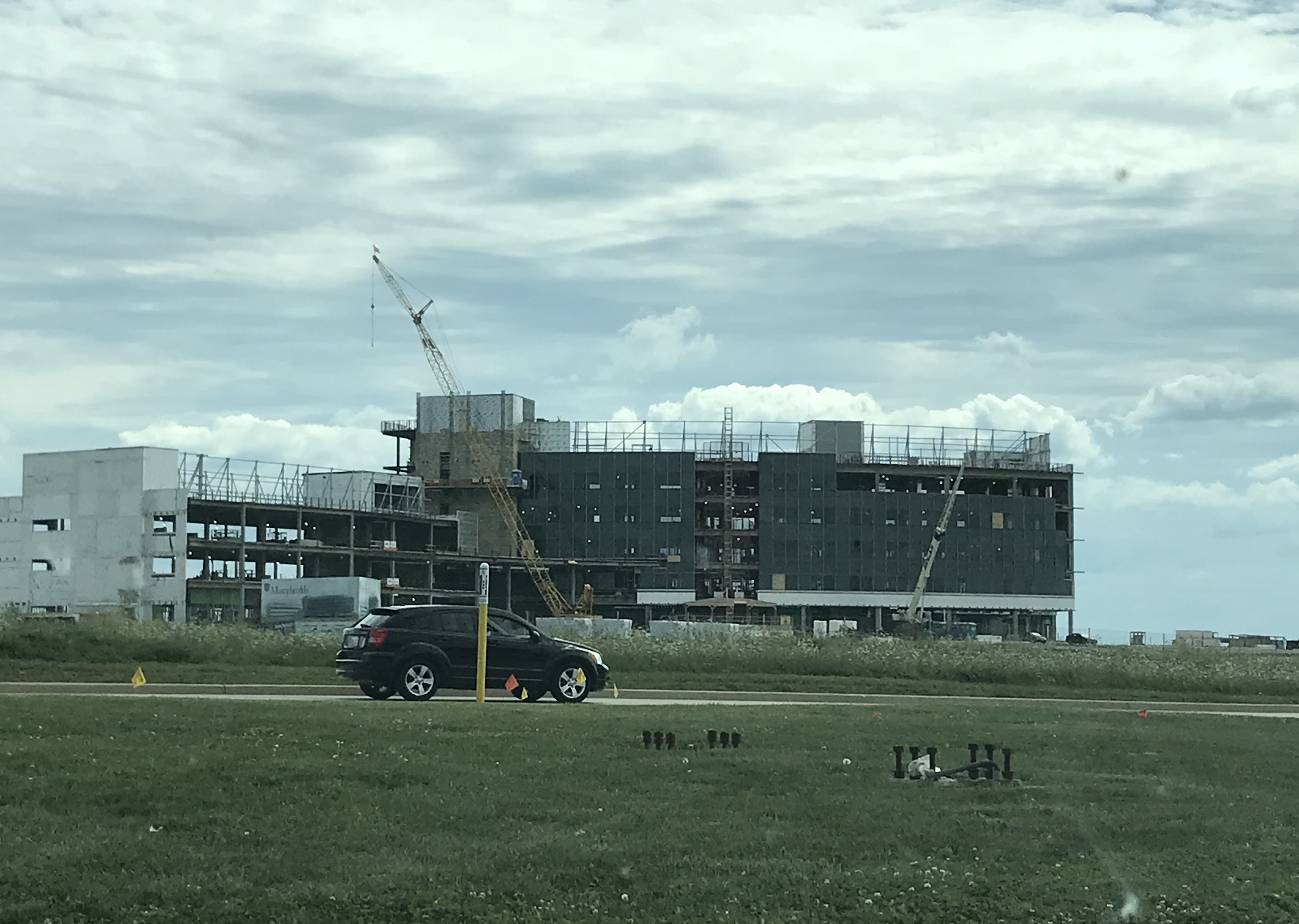 Construction of Rockford's new Mercy Health facility is seen from I-90 in Rockford on August 13th, 2017